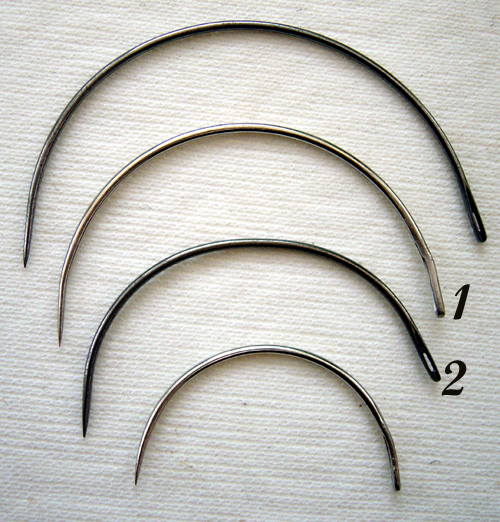 Curve needles